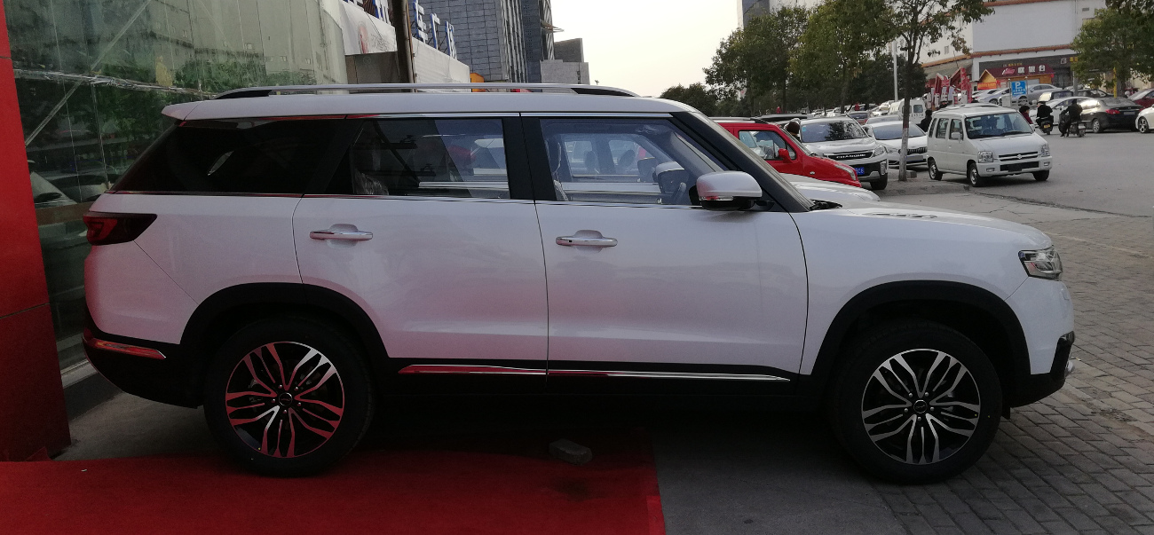 Changhe Q7 photographed in Zhengzhou, Henan province, China.